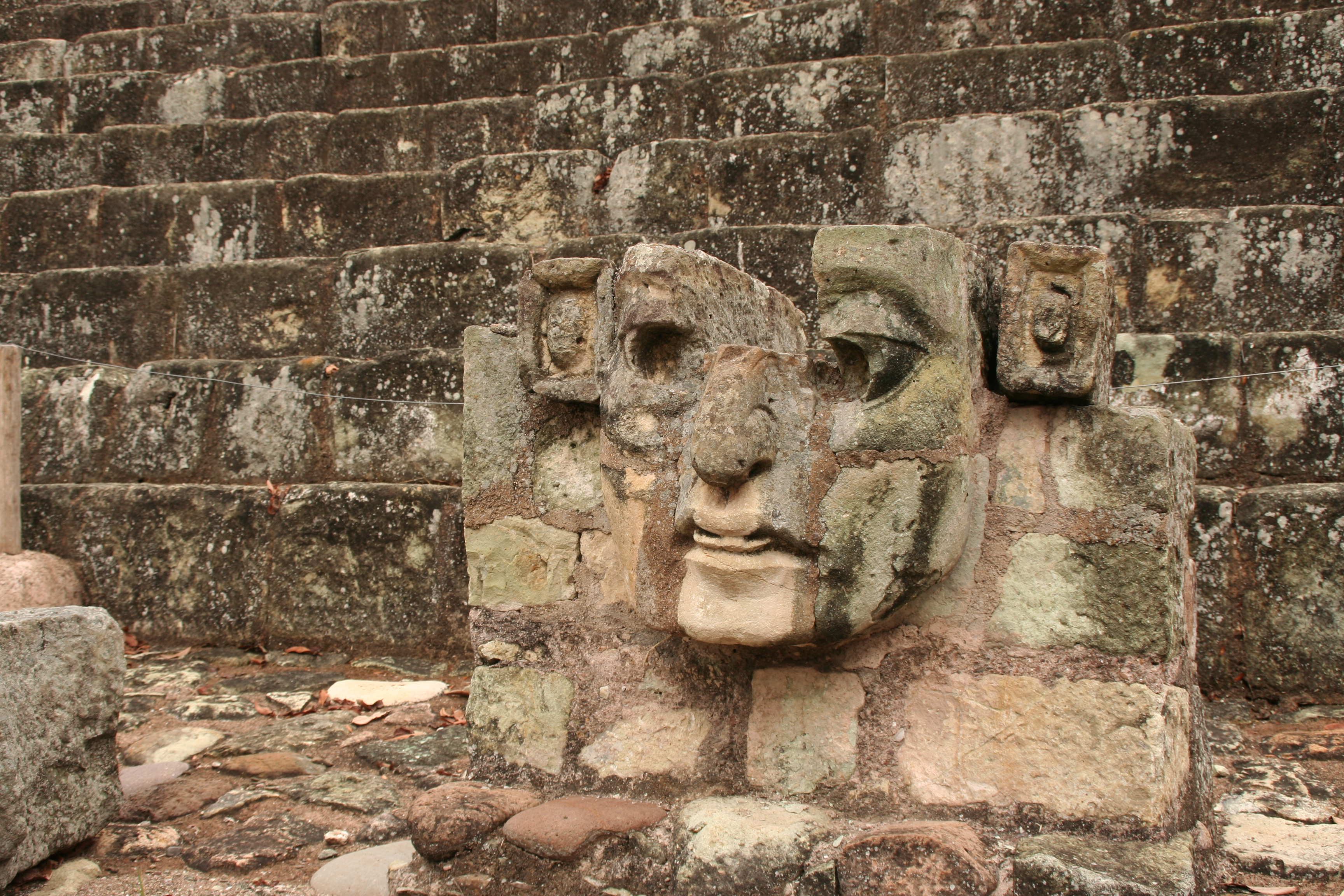 Detail of the ruins in Copán, Honduras.